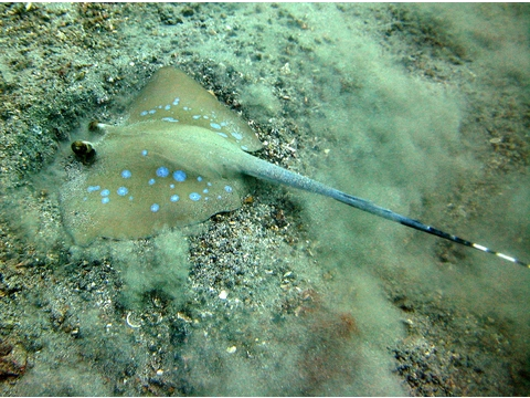 The full body of a bluespotted stingray, showing the black and white barbs on the tail.